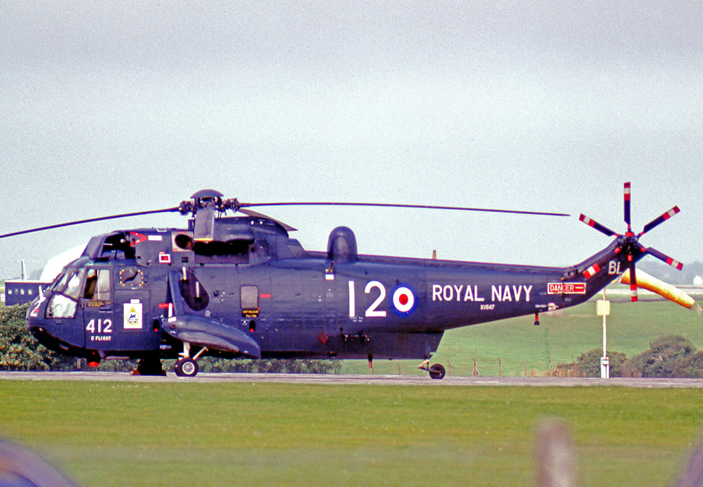 Westland Sea King HAS.2 XV647 of 820 NAS Squadron Royal Navy at RNAS Culdrose in 1977